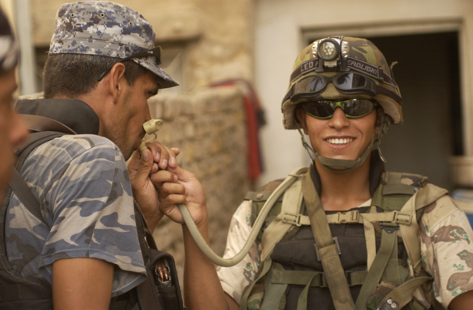 Iraqi National Police officers drink water from a camel back while on a joint mission with U.S. Soldiers in Rashid, Iraq, June 20, 2007. The Soldiers are assigned to 4th Platoon, Charlie Company, 2nd Battalion, 3rd Infantry Regiment, 3rd Stryker Brigade Combat Team, 2nd Infantry Division out of Fort Lewis, Wash.